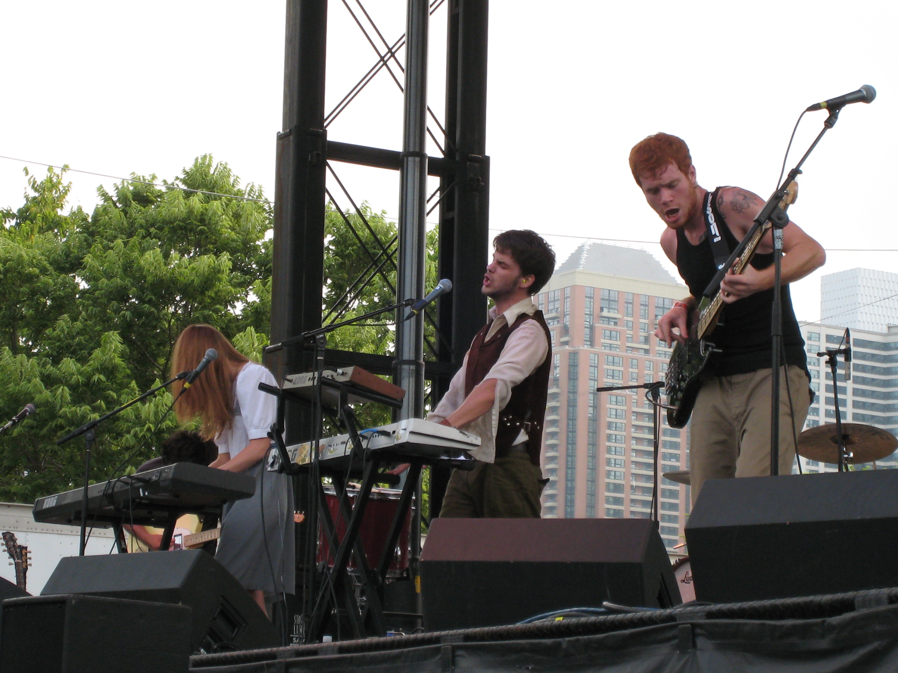 The Annuals playing at the 2007 Lollapalooza Festival Tour (Day 3)